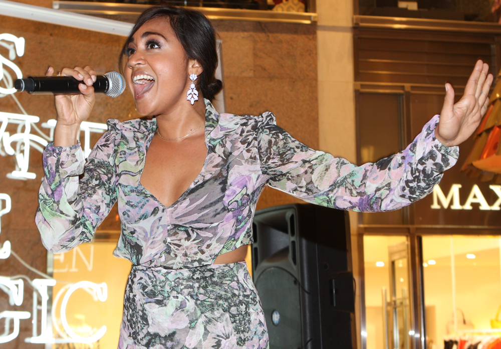 Jessica Mauboy and Justice Crew perform live concert in Sydney CBD; Chifley Plaza - Sydney, Australia; Ipoh Kicks Off Christmas with Jess Mauboy and Justice Crew... Justice Crew official website Eva Rinaldi Photography Flickr